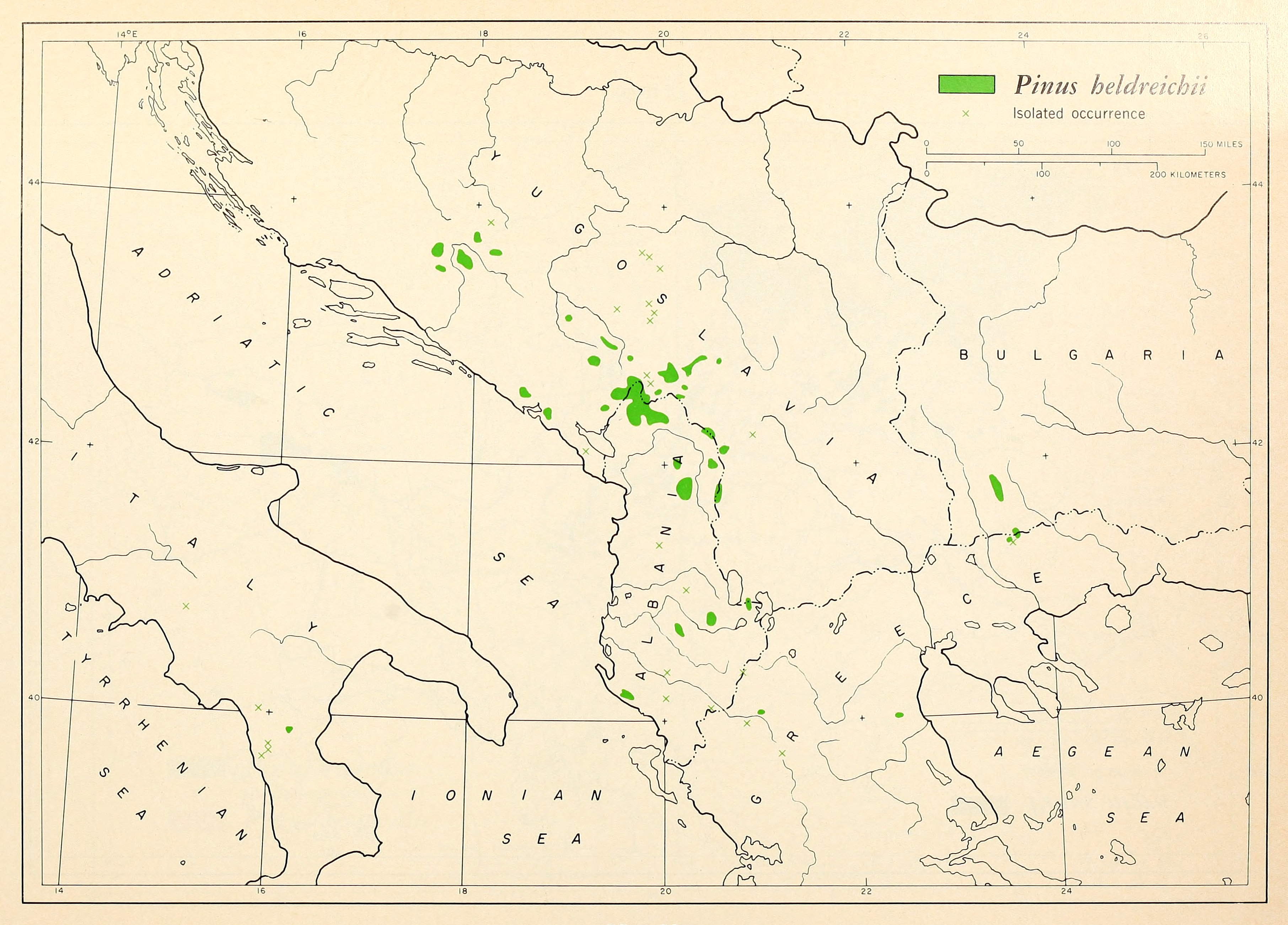 Map 28. Pinus heldreichii distribution